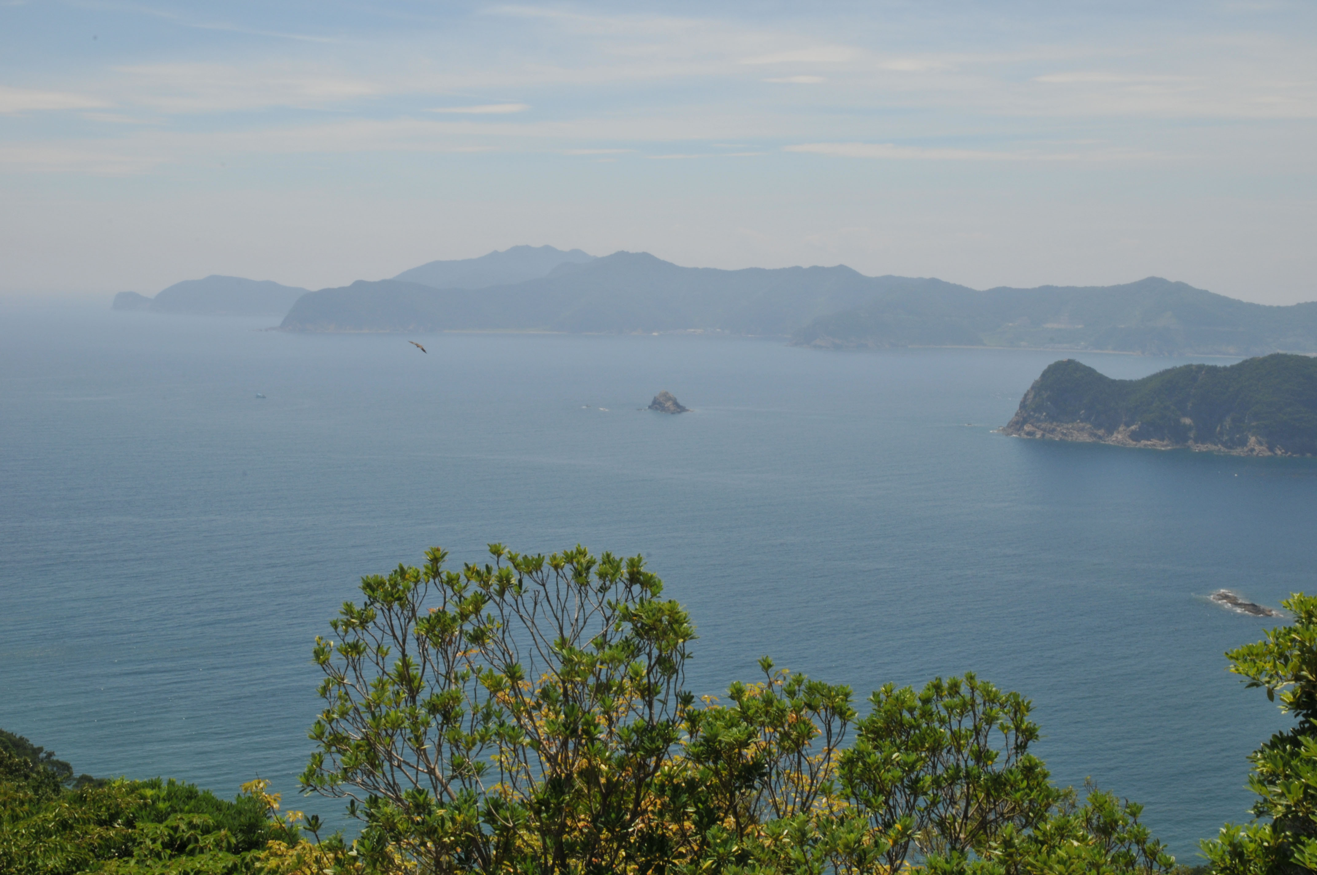 View of Yura Peninsula